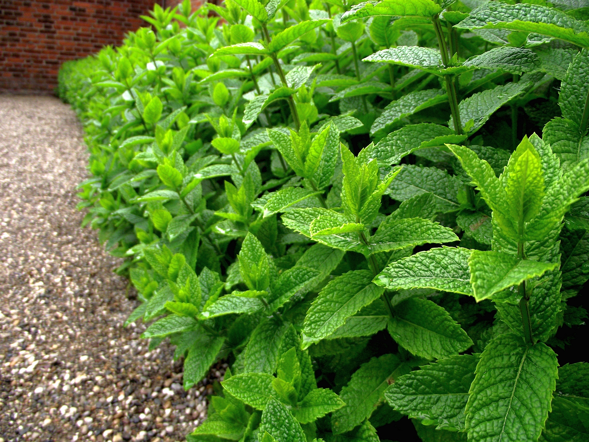 A green field of Mentha × piperita (Peppermint)